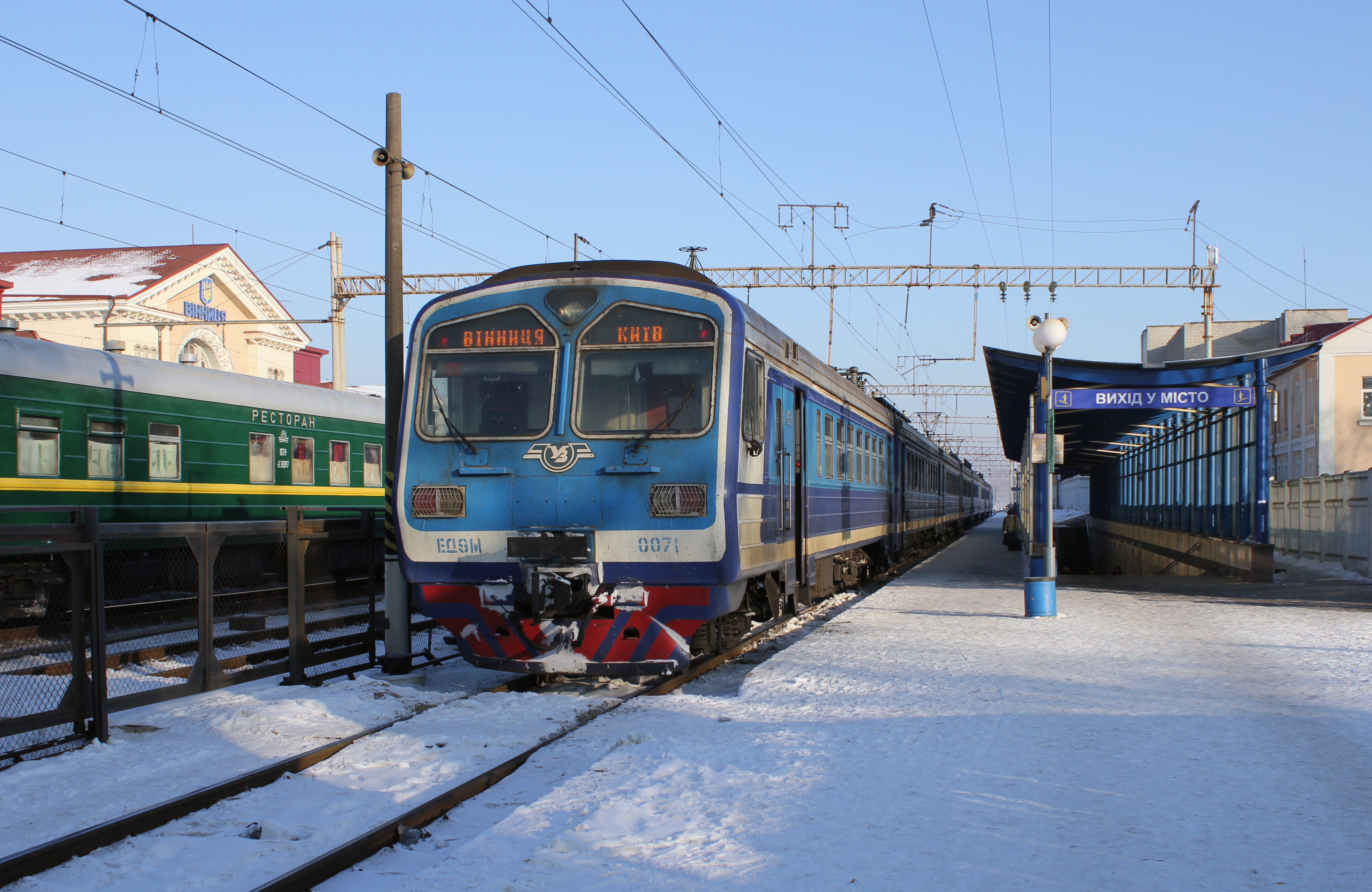 Electric multiple unit ED9M-0071 in Vinnitsa railway station.